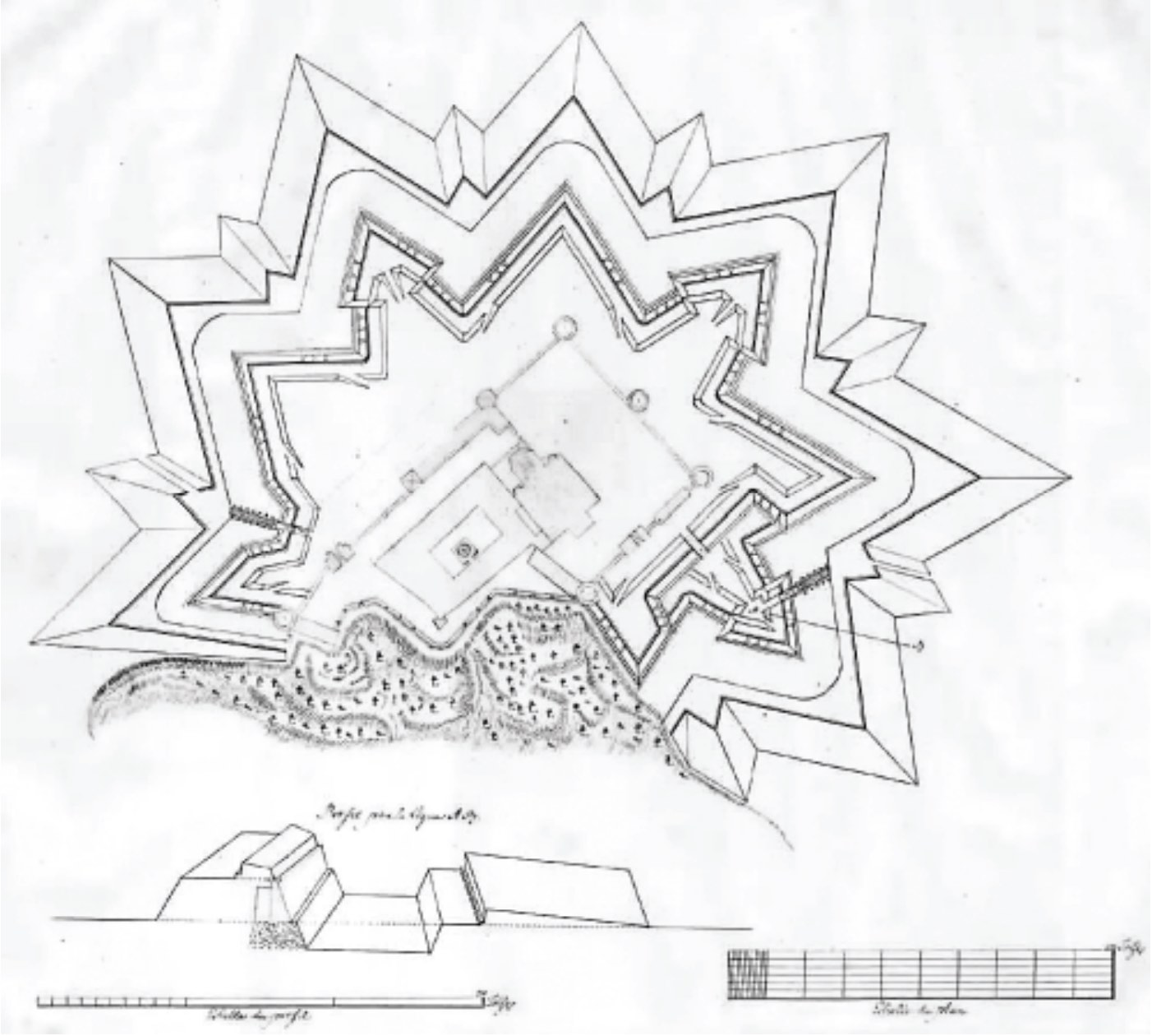 Christian Dahlke’s plan (1746) for the fortification’s modernization in Pidkamin.